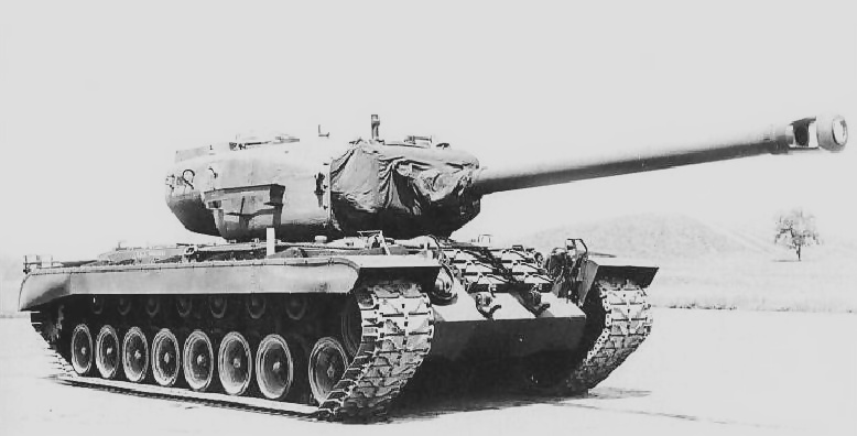 T30 Heavy Tank first prototype at Aberdeen Proving Ground